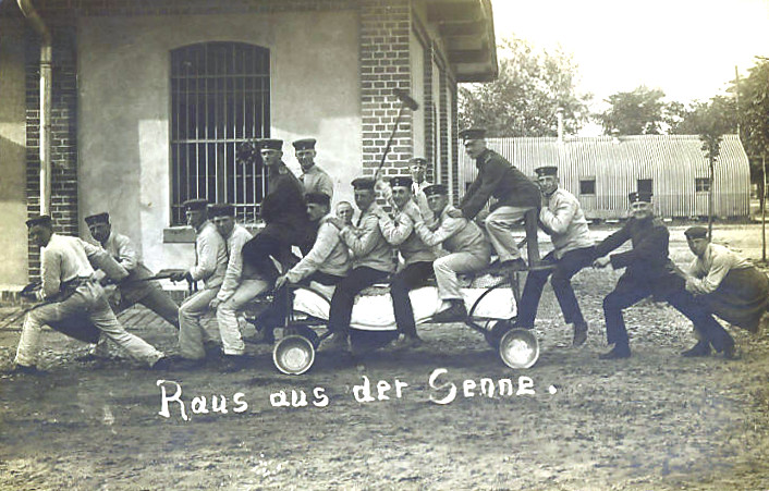 Sennelager Training Area near Paderborn, Germany, 1912